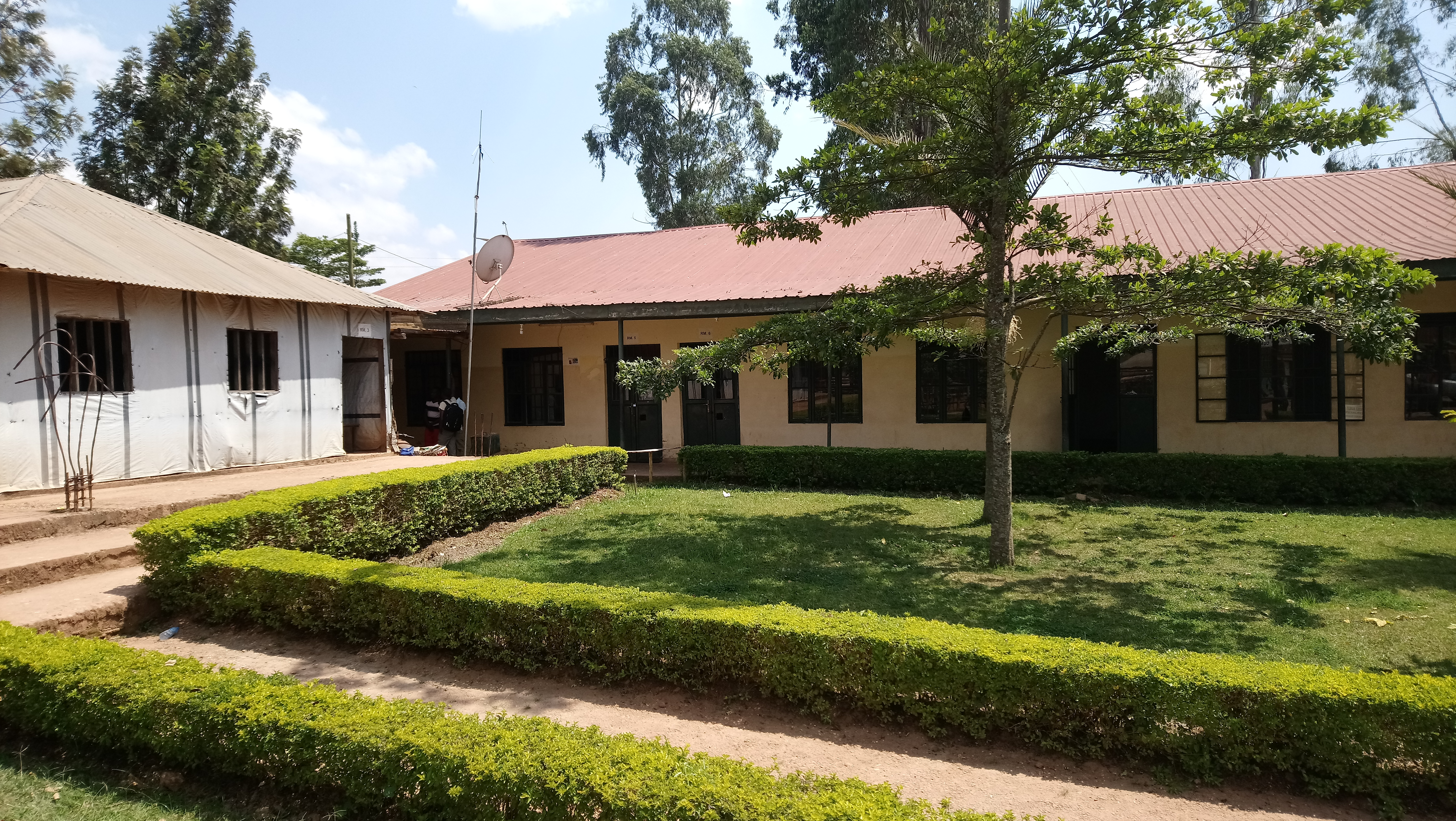 Its where vocational lecture rooms are located.